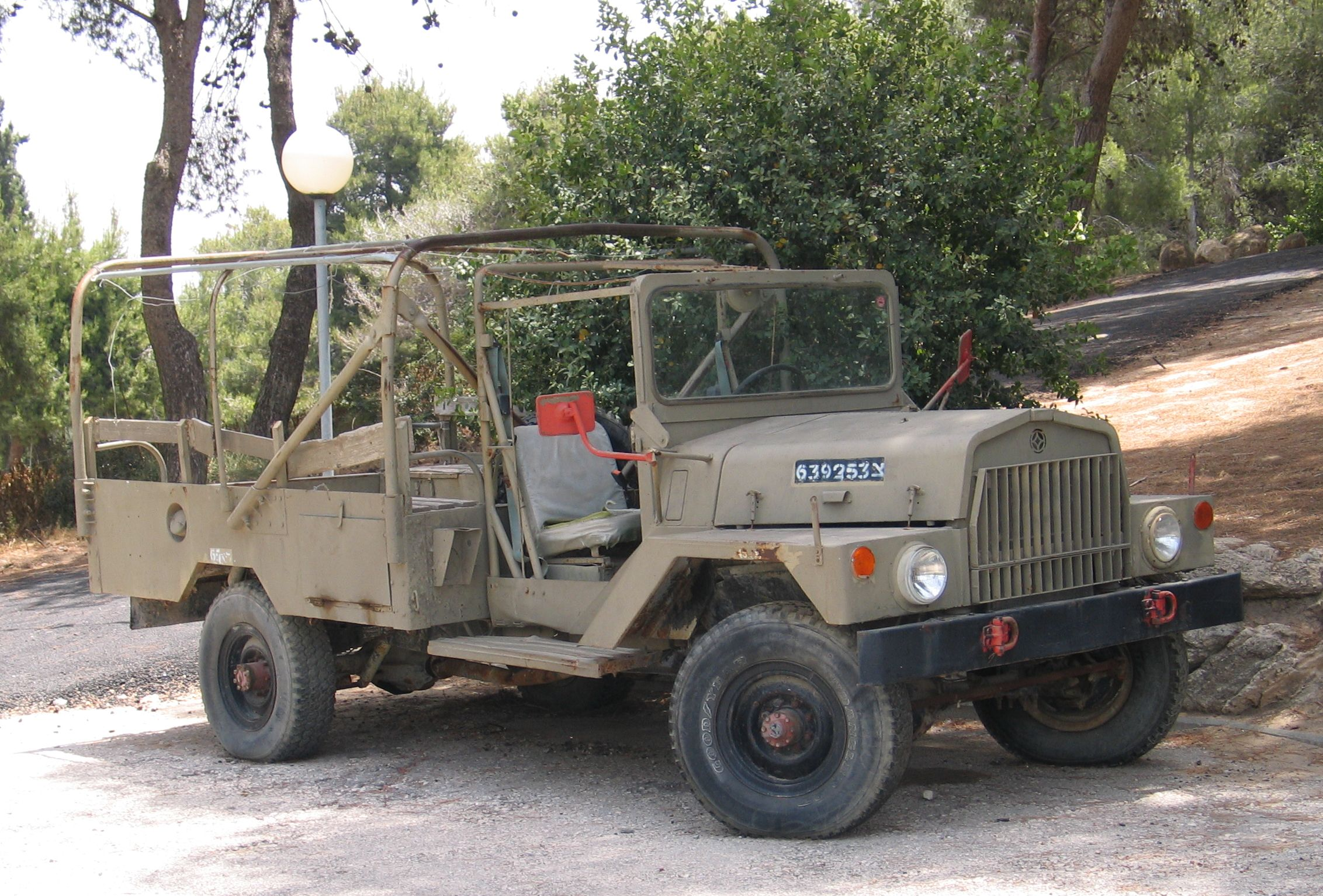 M-325 Commandcar Nun-nun light truck in kibbutz Yad Mordechai.